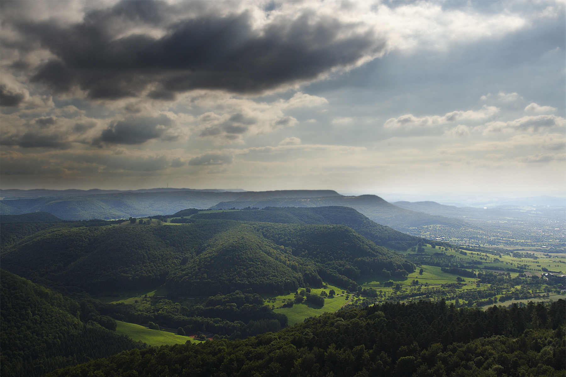 The cuesta of the Swabian Alb (“Albtrauf”), looking westwards, seen from a height of ca. 900 m. The terrain is heavily wooded (beeches). There are only a few green spots on the plateau, meadows, sometimes former acres. Streams and precipitation heavily intersected the cuesta in millions of years in spillways and valleys, forming countless rivulets that finally merge the Neckar. The smoother bottom of the slopes in front of the cuesta are now extensive meadow orchards. With cleaner air, the massif of the Black Forest could be seen in the far back.